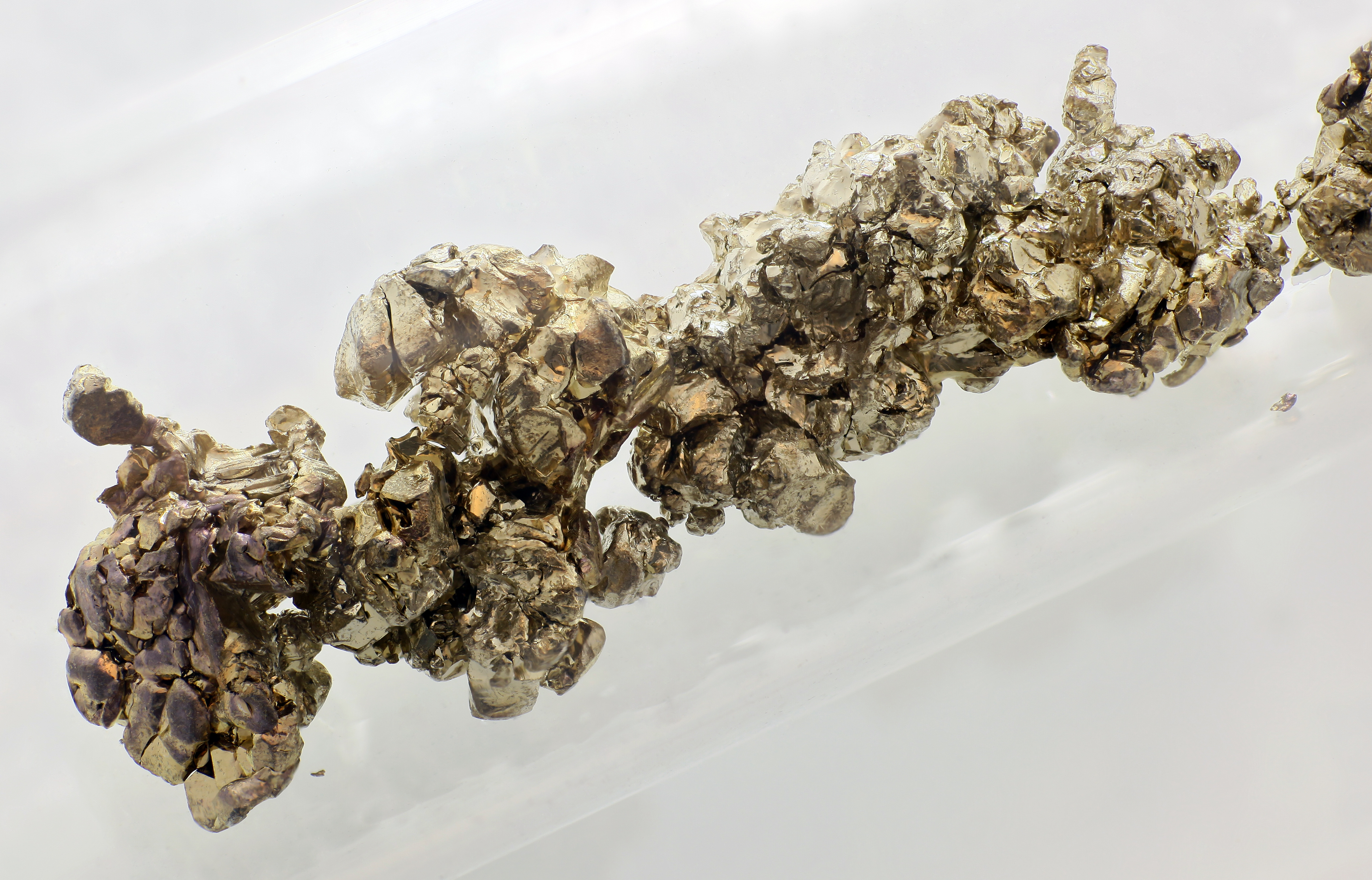 The chemical element strontium as synthetic crystals, sealed under argon in a glass ampoule, purity (99.95 %). Size of the image ca. 3cm * 4,7cm